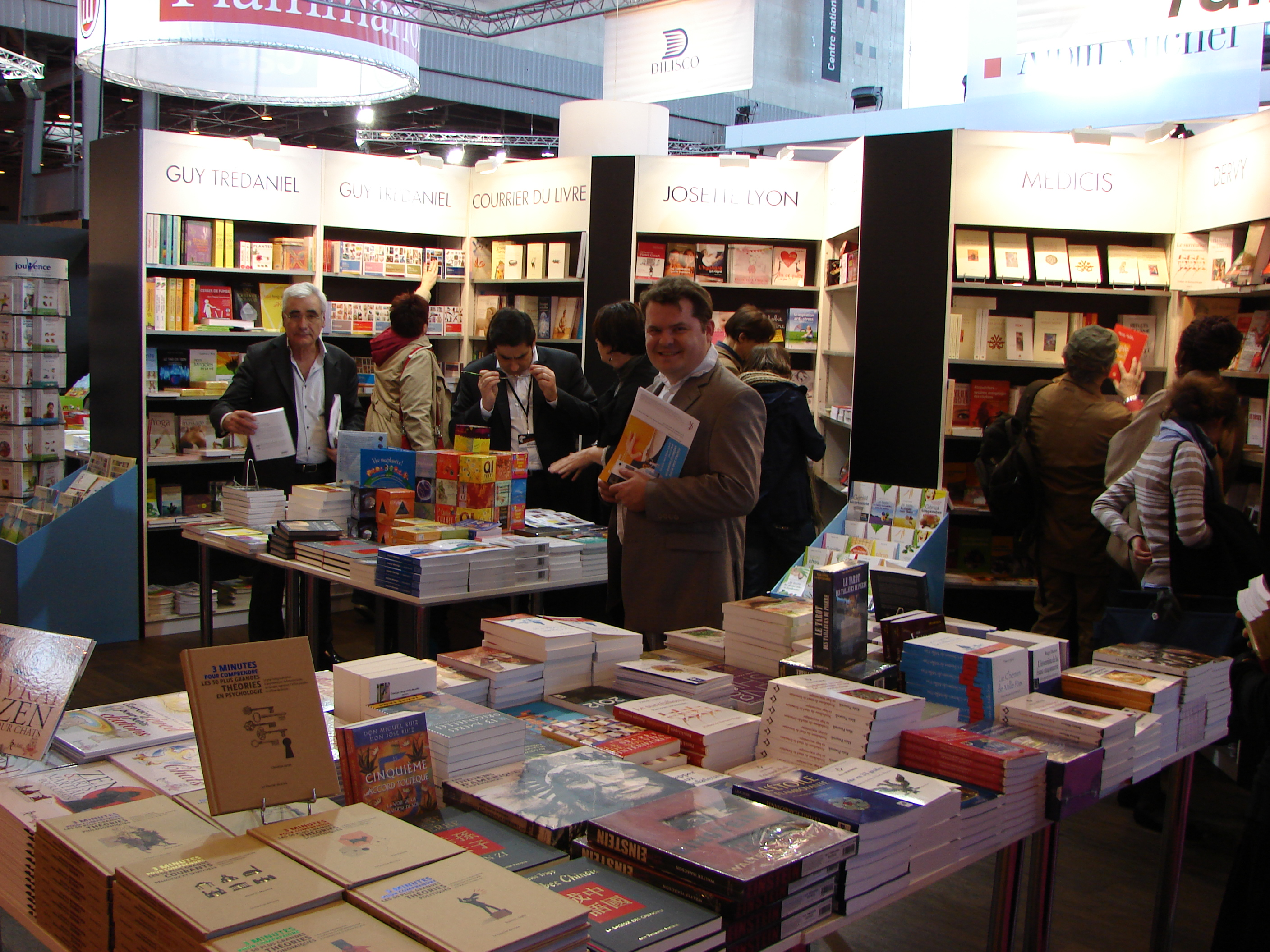 Guy Trédaniel au salon du livre